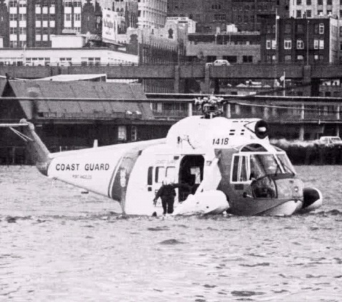 A U.S. Coast Guard Sikorsky HH-52A Seaguard helicopter (s/n 1418) from CG Air Sation Port Angeles, Washington (USA), in 1979.